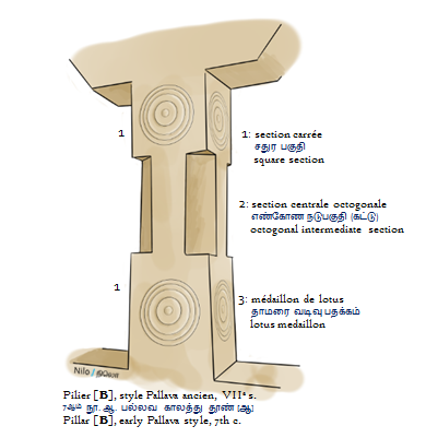 Early Pallava style pillar, 7th c.